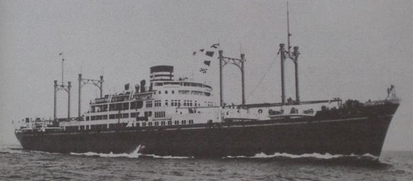 O.S.K. Line Aikoku Maru